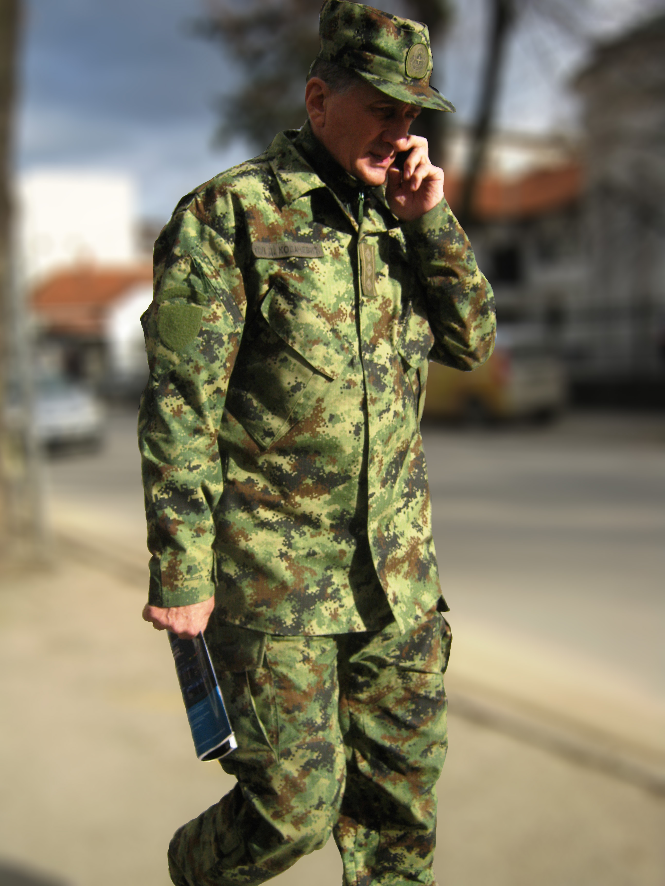 Serbian Army uniform M10